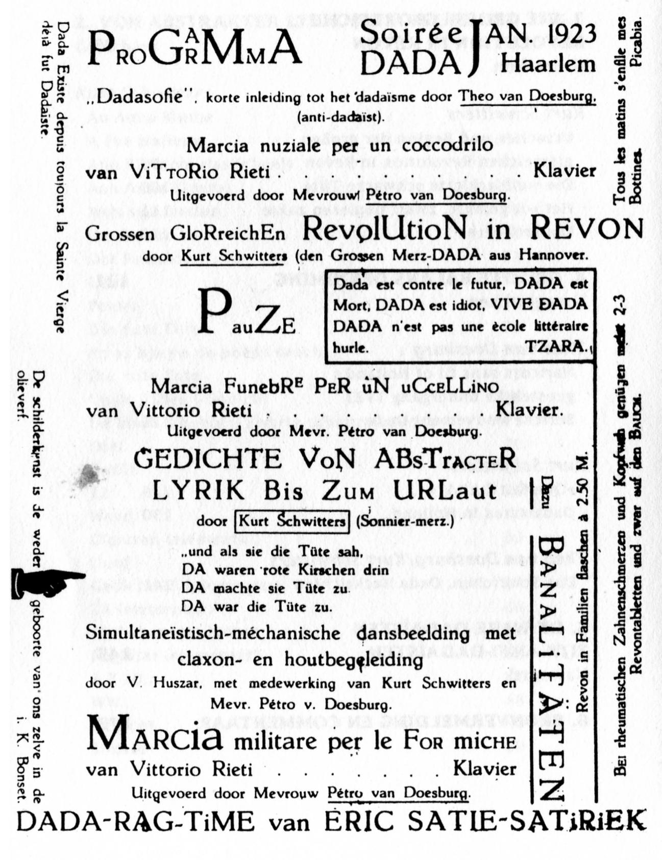 Programme Dada-Soirée held in Haarlem, 12 January 1923.